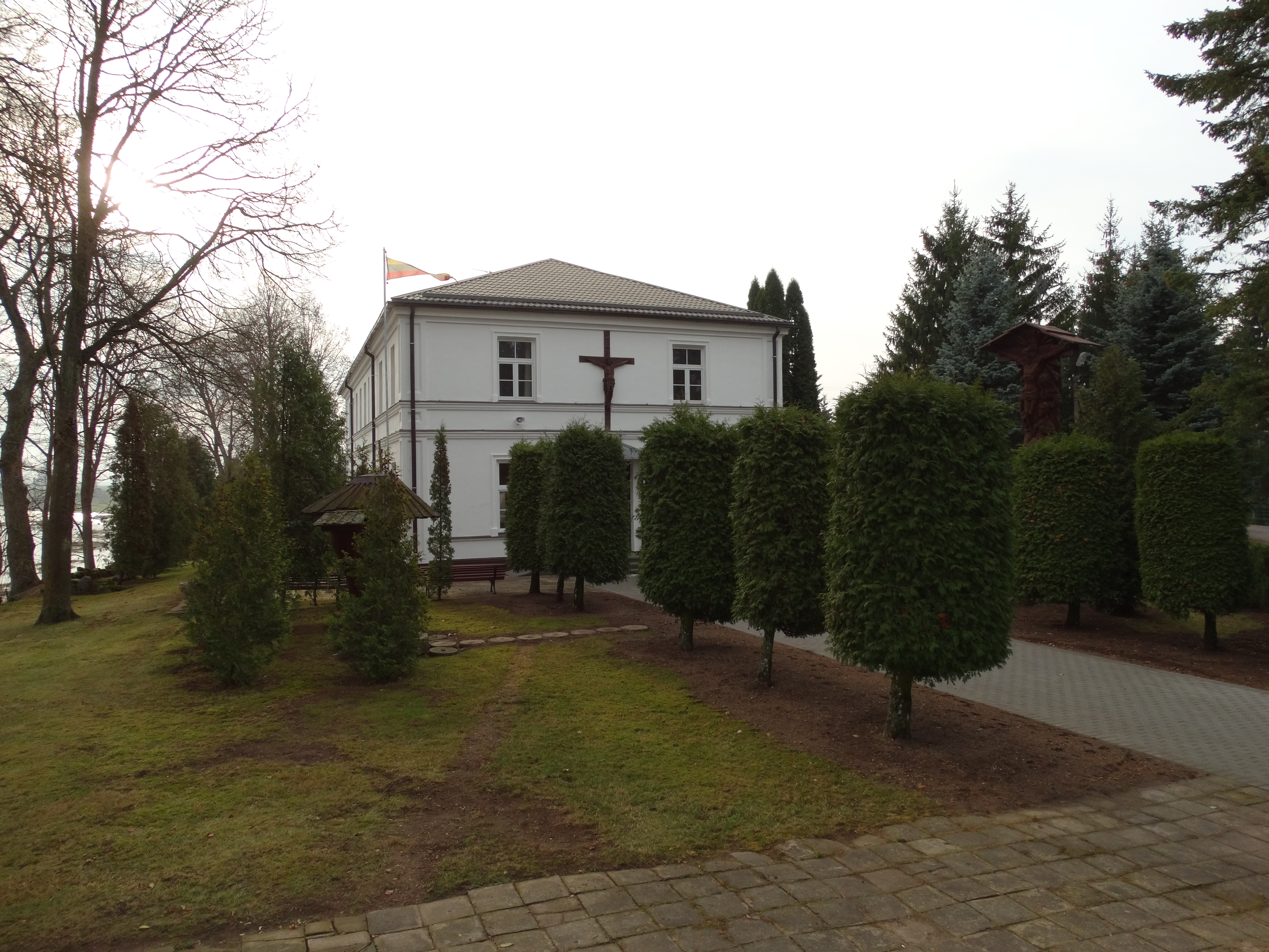 Roman Catholic Church in Saločiai, Pasvalys district, Lithuania